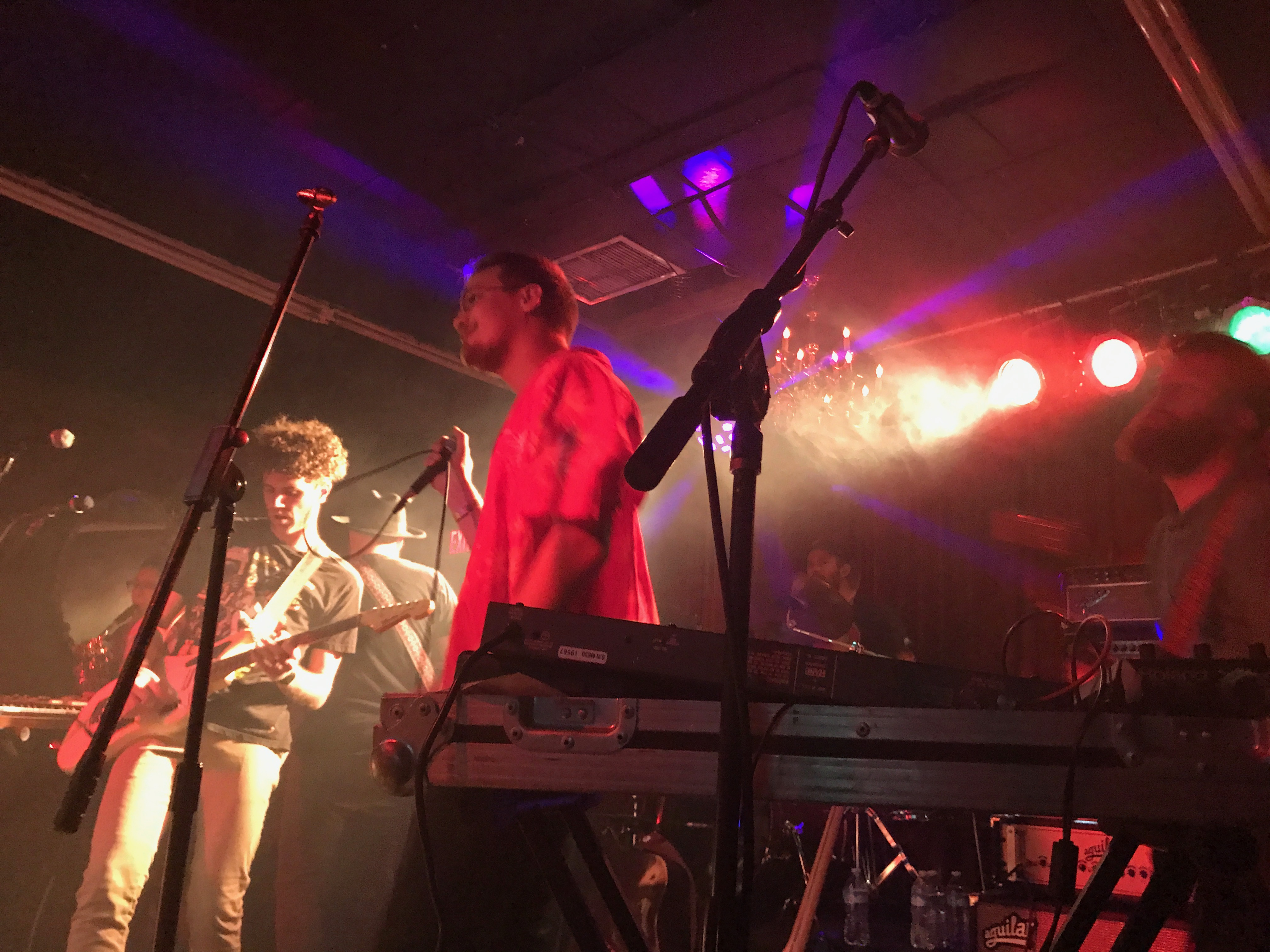 Fictionist released their album Sleep Machine on May 12, 2017 and performed two concerts back to back at the Velour Live Music Gallery to introduce it.